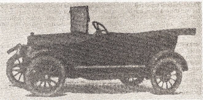 1916 Mecca Model 30